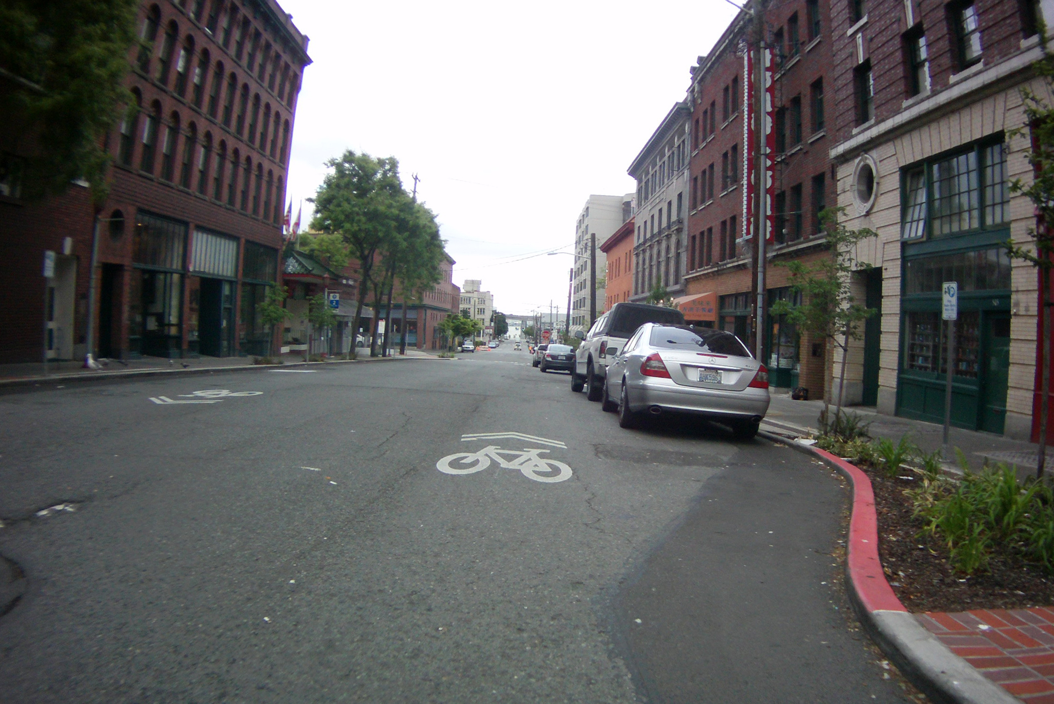 Shared Lane Markings set too far to the right within the lane encourage cyclists to ride in the door zone of parked cars, and encourage motorists to overtake within the lane rather than safely sharing the road by changing lanes to pass. The standard for sharrows sets the bare minimum distance from the curb, but the *intent* of sharrows is to locate them in the center of the effective travel lane. Installations like this demonstrate a "bare minimum to comply" approach that minimizes effort and ignores best practices. Taken with a Freestyle HD video camera on a Minoura Handlebar Camera Mount.